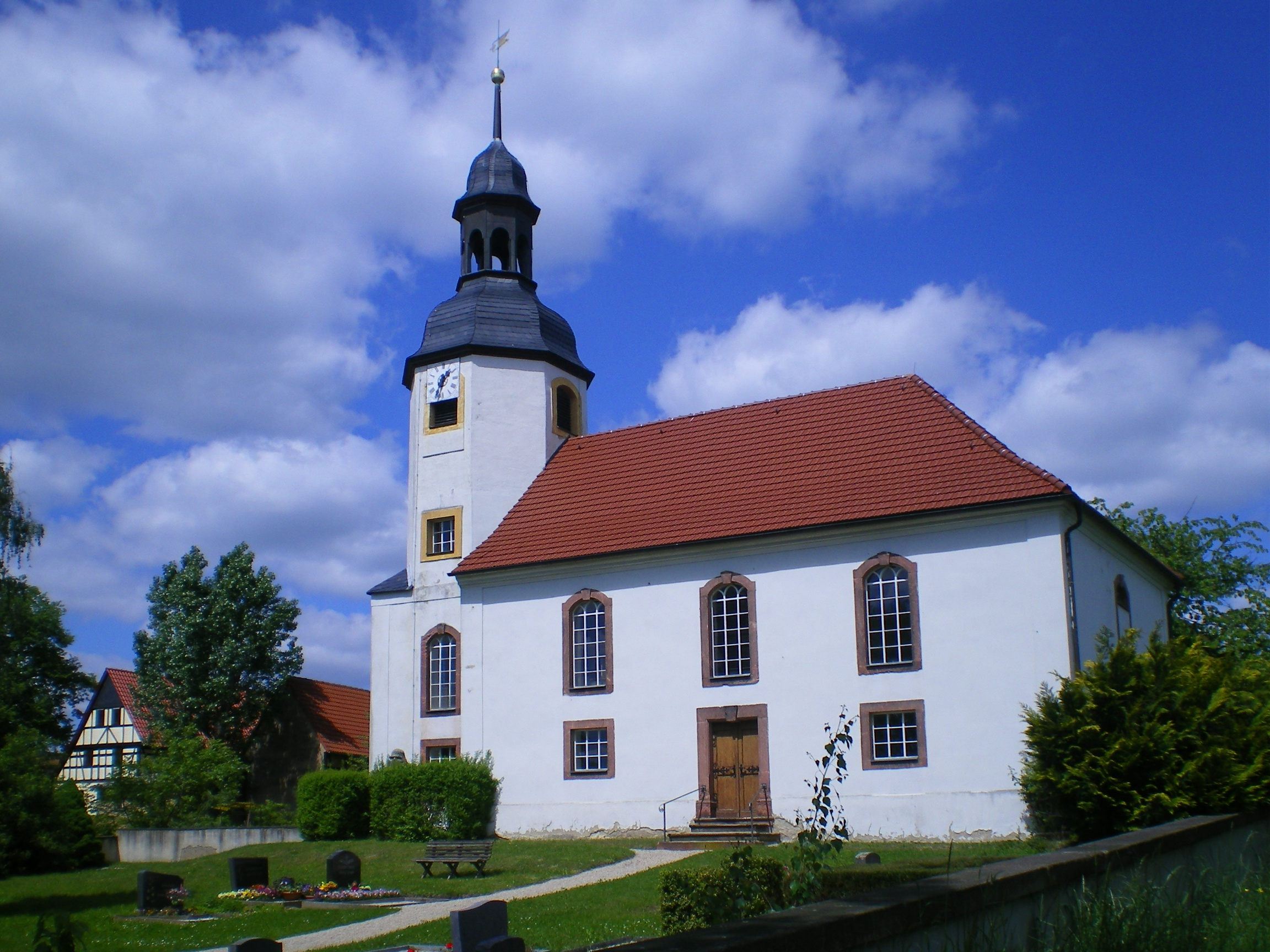 Church in Garbisdorf in Landkreis Altenburger Land (Thuringia/Germany)